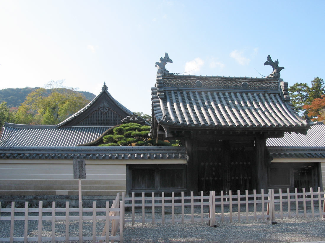 Jingu Saisyu-Syokusya (The site of Keikoin Temple) 神宮祭主職舎本館（旧慶光院客殿）三重県伊勢市宇治浦田町にて投稿者撮影